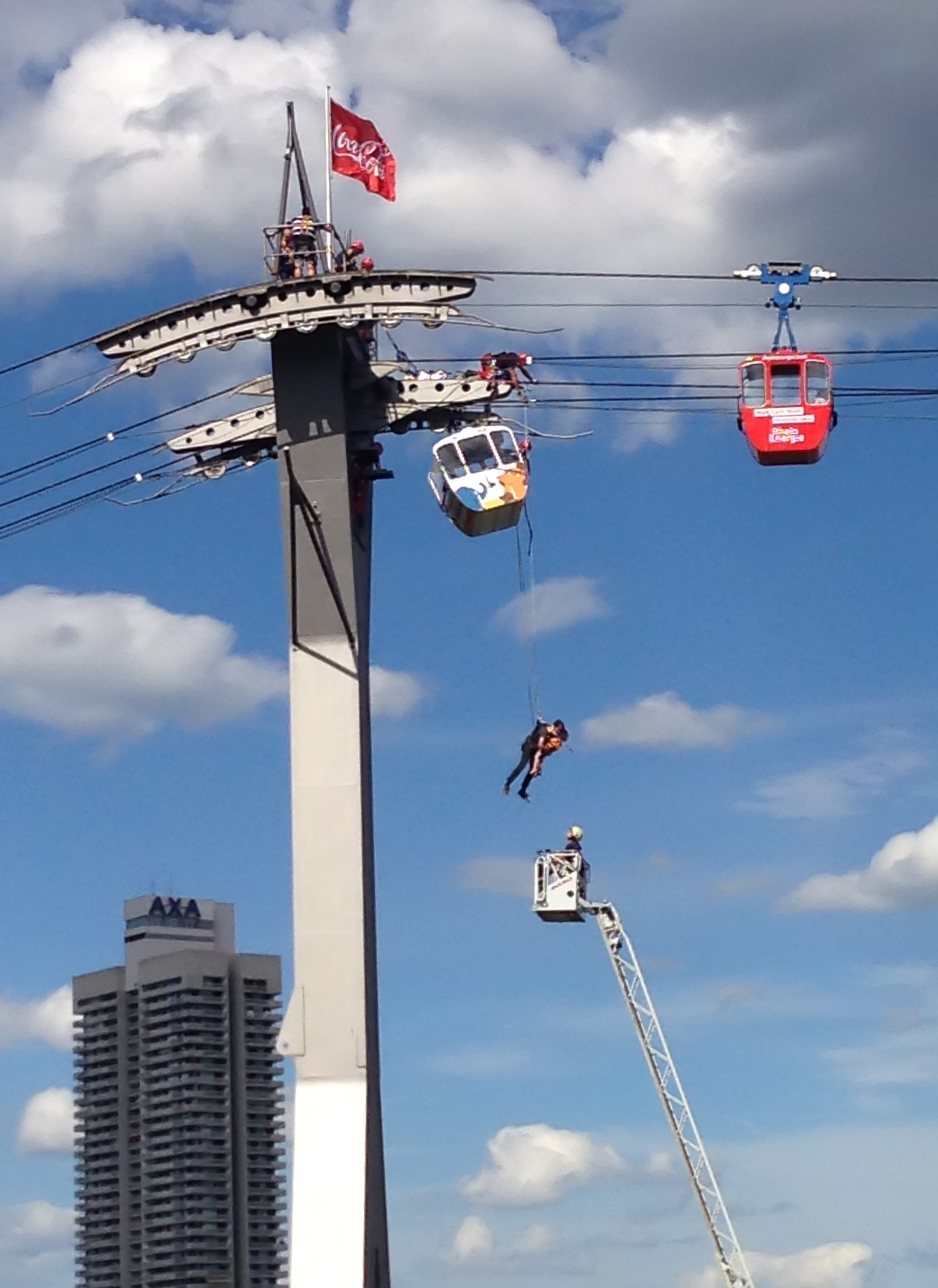 Passengers are being rescued after their cable car got stuck at a pylon in Cologne, Germany.